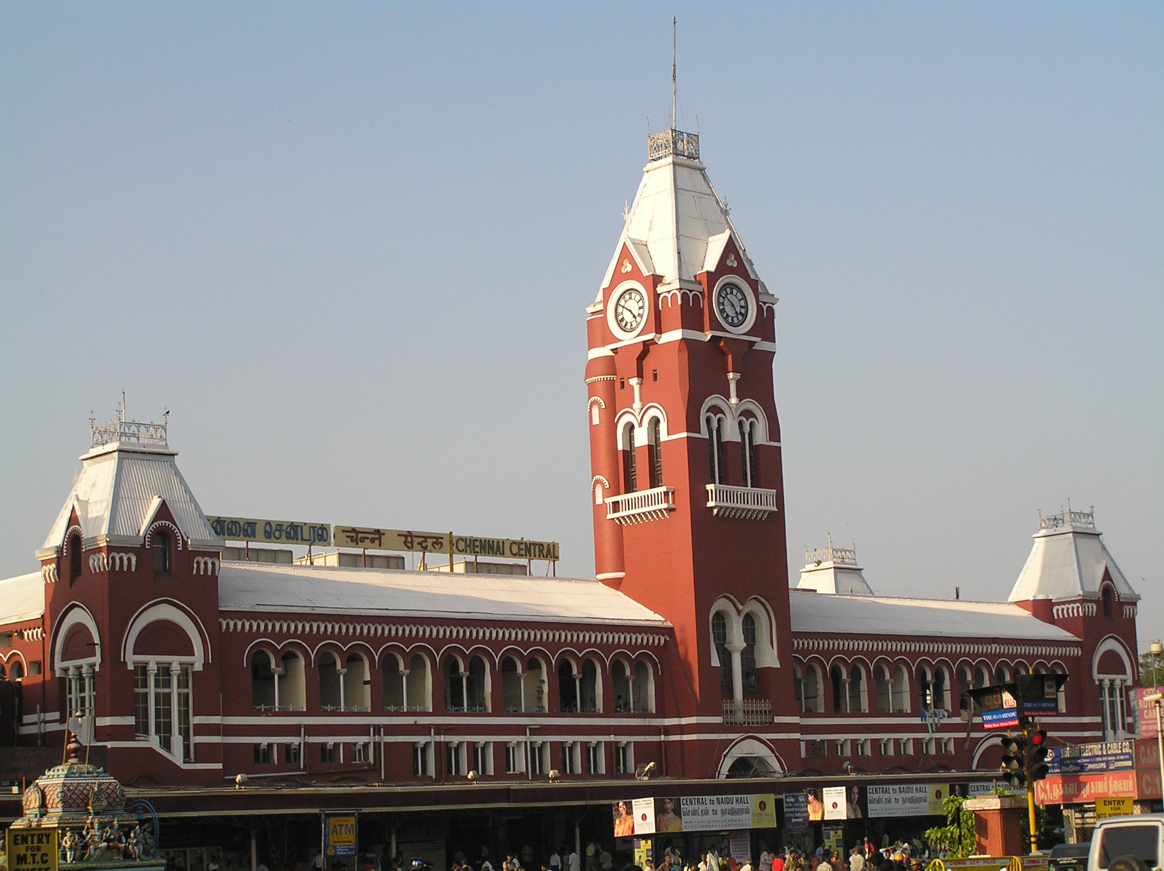 Side view of Chennai central